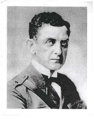 Dr. Edward W. Ryan American Red Cross WWI